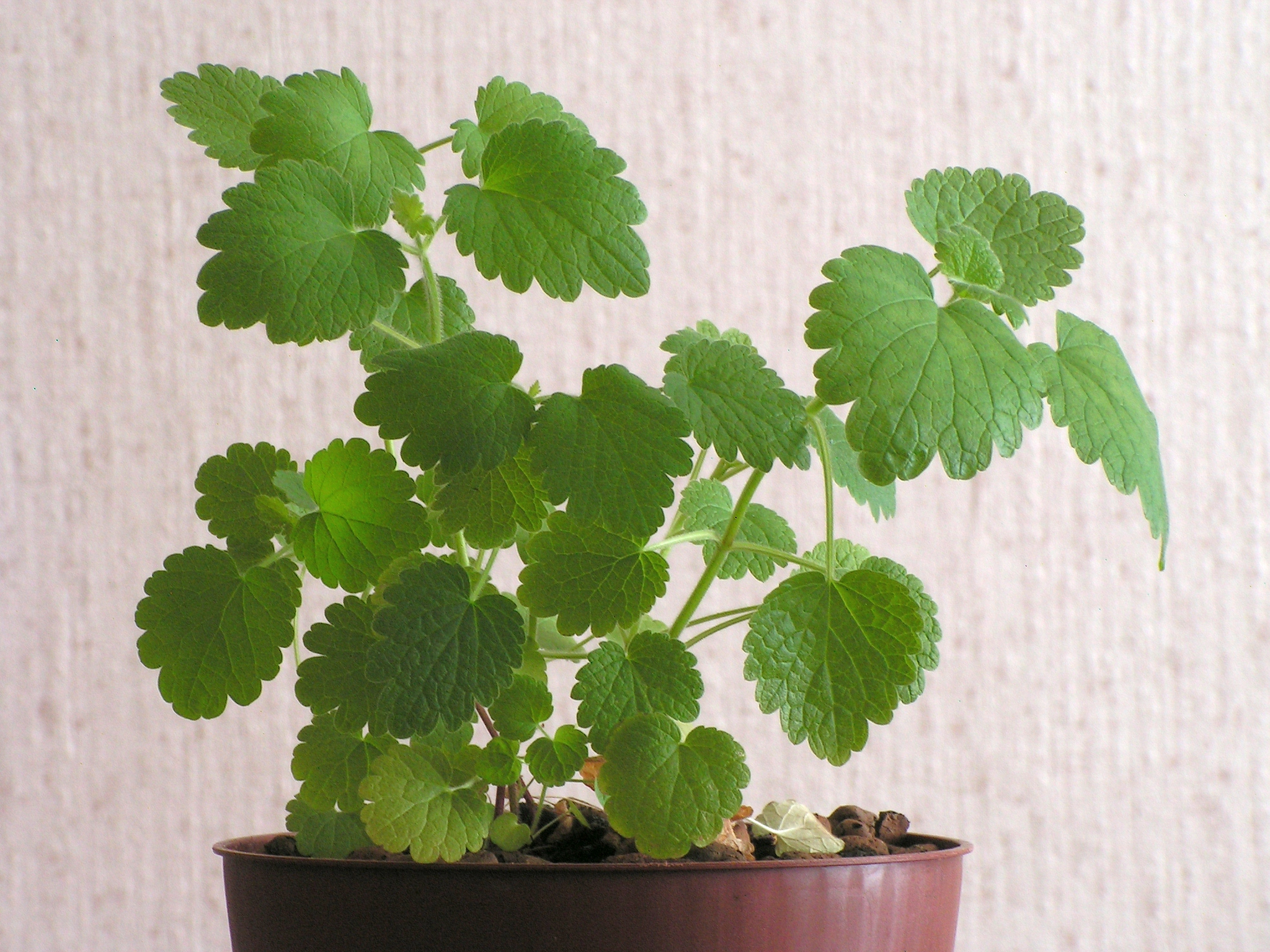 Young plants of Common motherwort. Height of the highest plant is 12 cm.